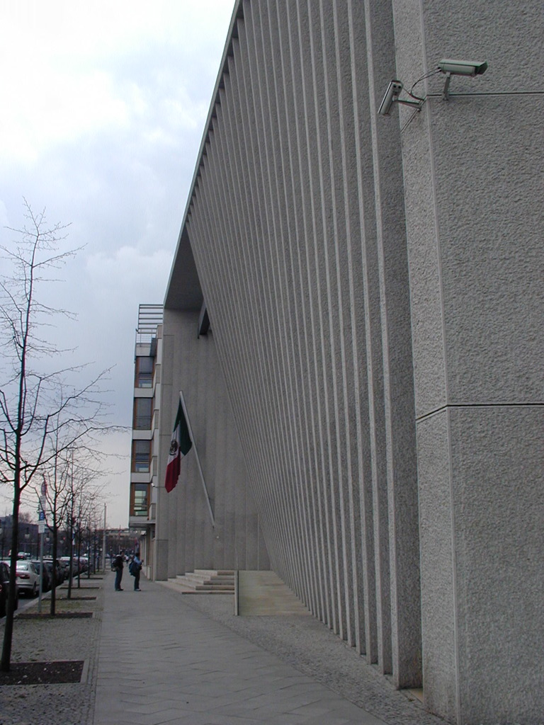 Embassy of México in Berlin.